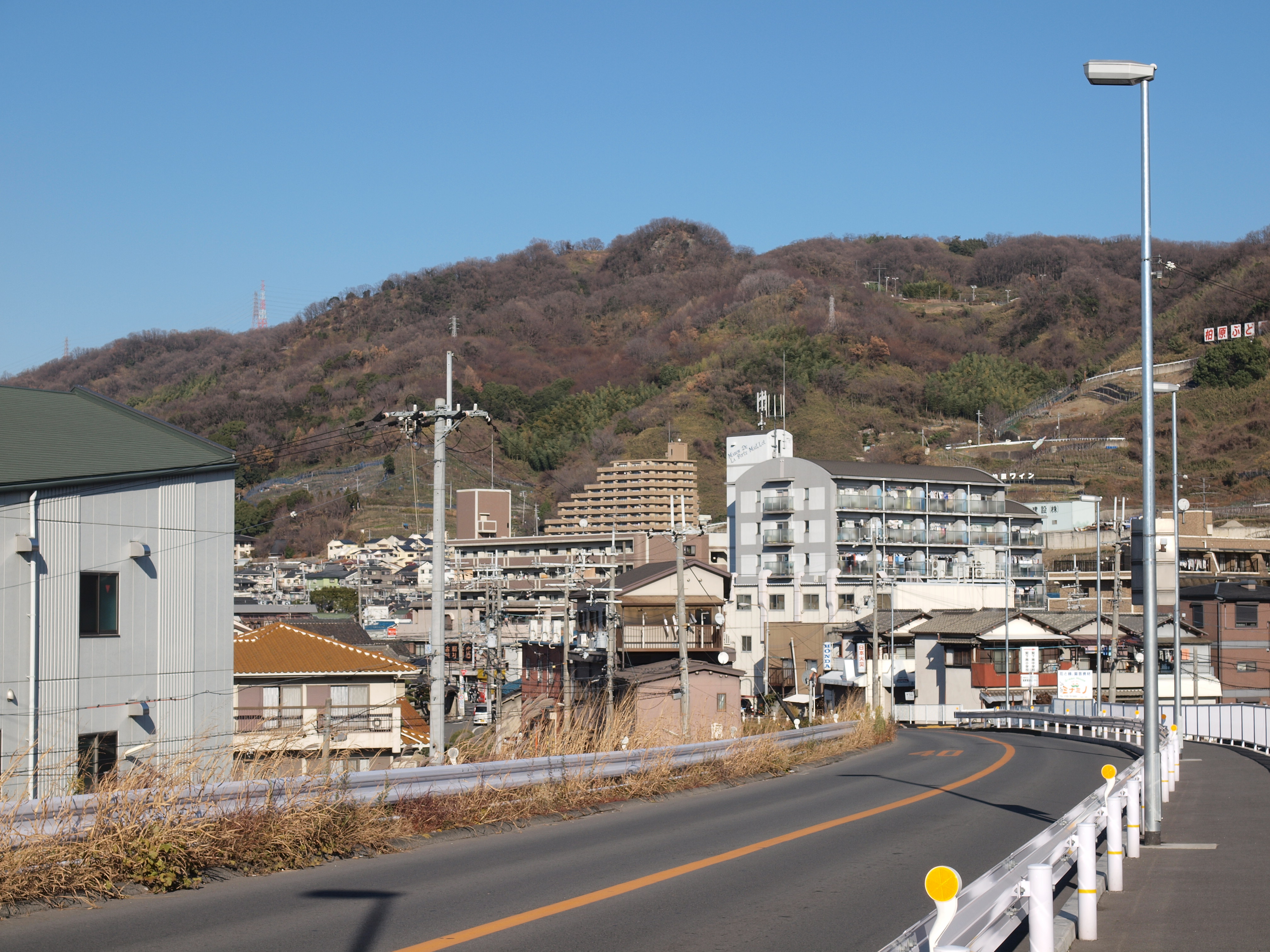 Takaoyama (Mountain) in Kashiwara, Osaka